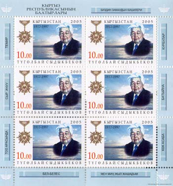 Stamp of Kyrgyzstan